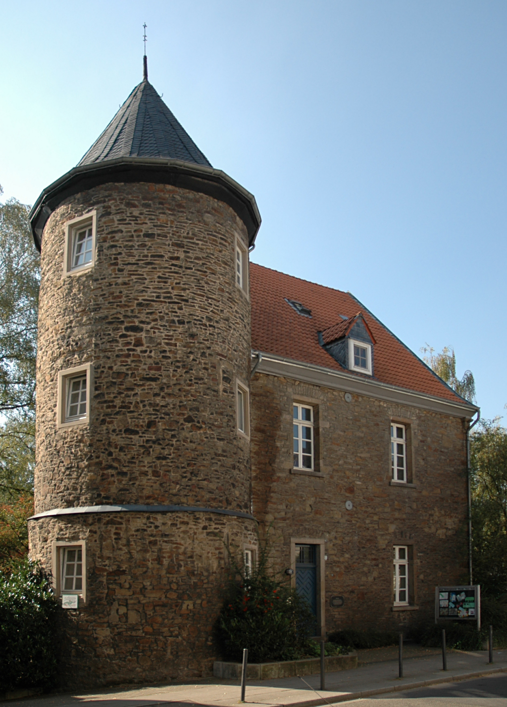 Haus Heck in Essen-Werden